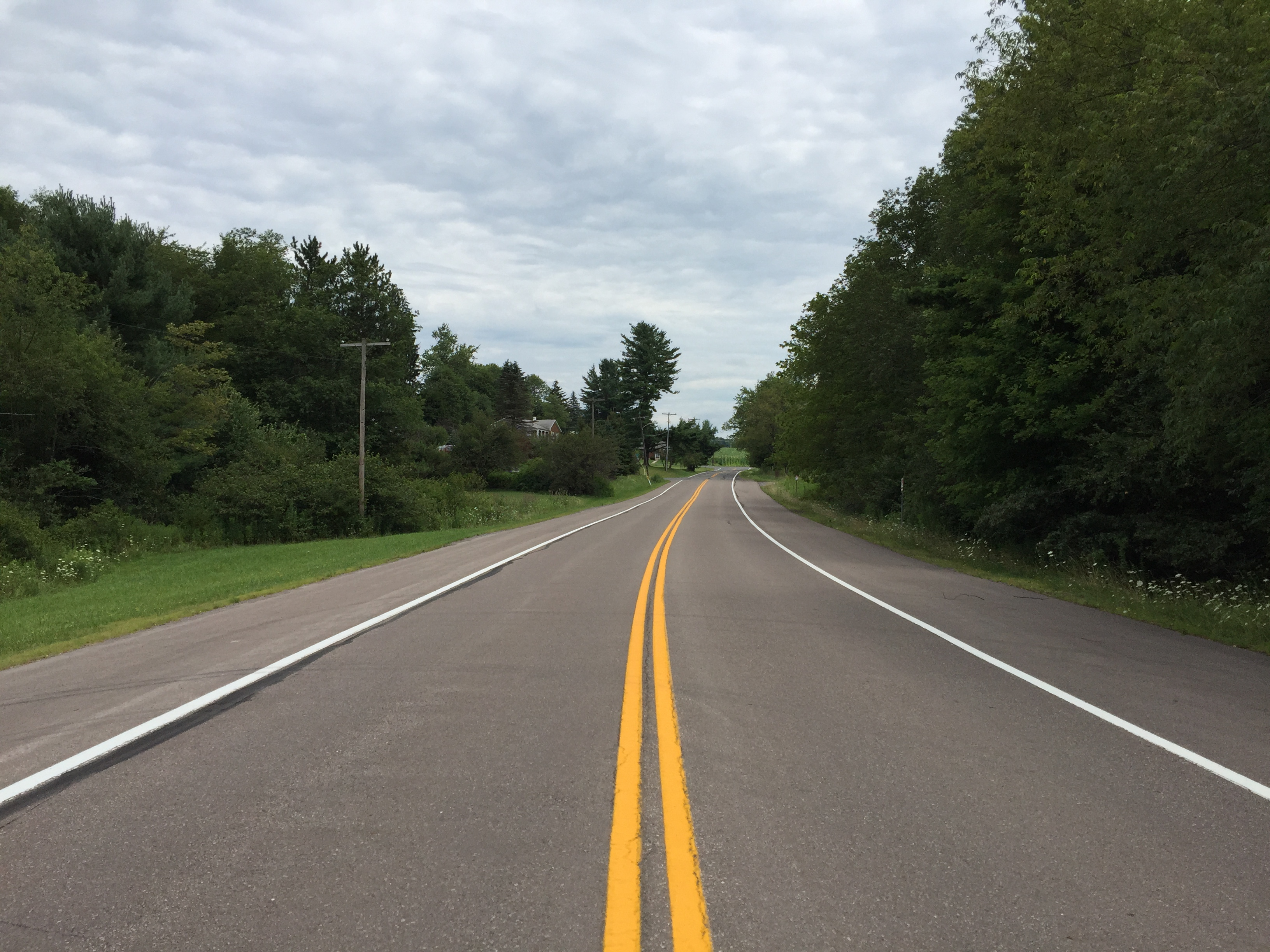 View north along Maryland State Route 219 (Ninth Street) at U.S. Route 219 (Oak Street) and Maryland State Route 135 (Maryland Highway) in Oakland, Garrett County, Maryland